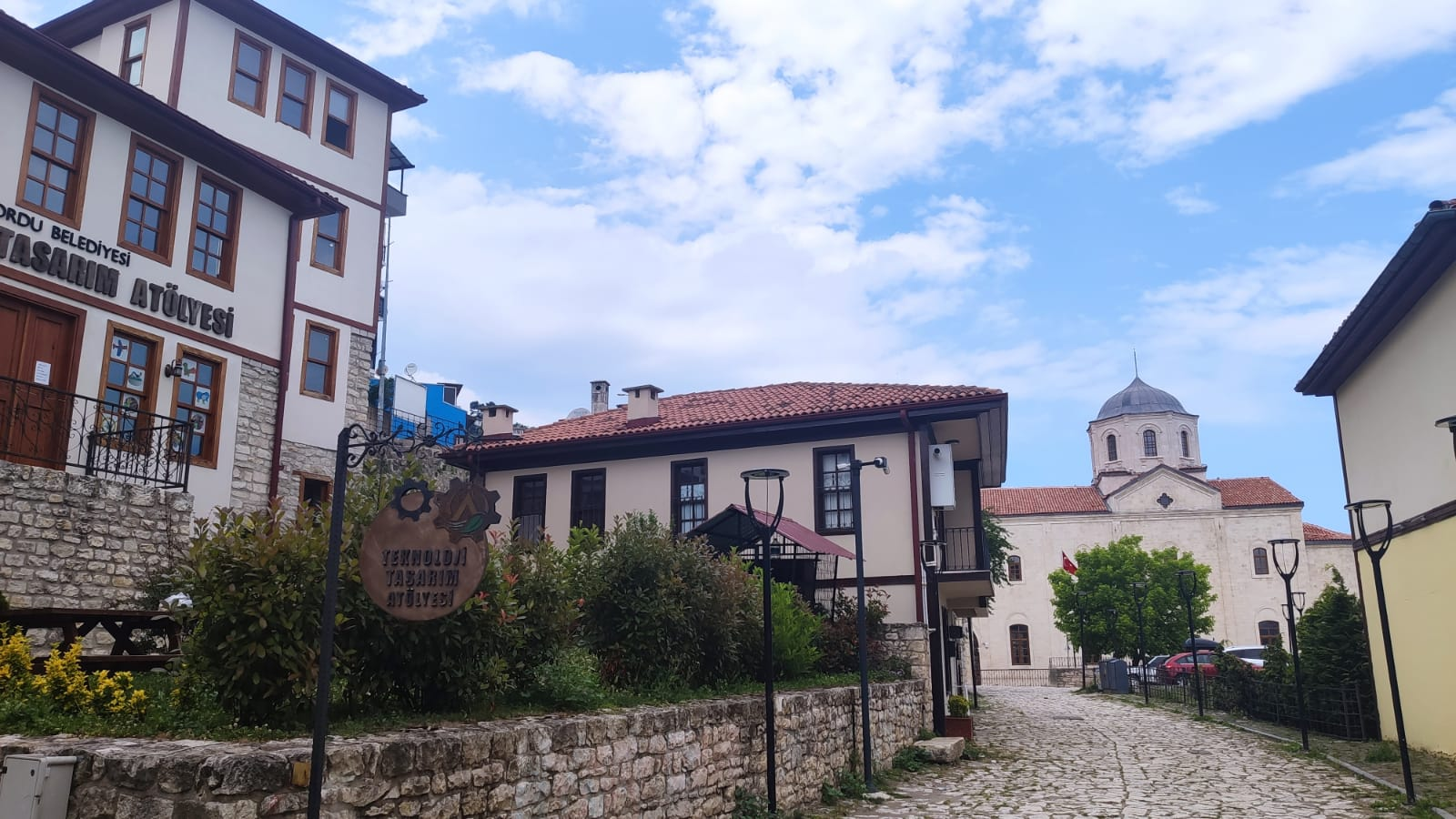 Ordu, Oldtown